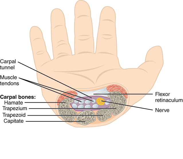 Anatomy & Physiology, Connexions Web site. Jun 19, 2013.